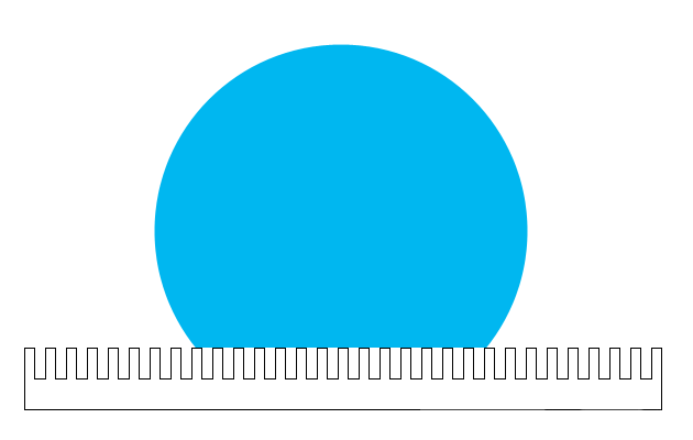 liquid drop in Cassie-Baxter state